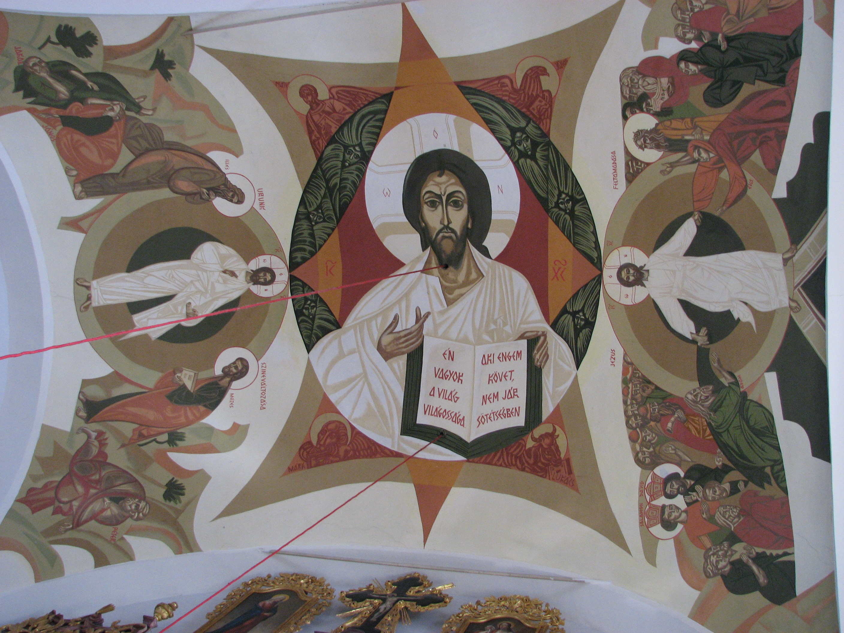 The fresco on the ceiling of the Greek Catholic Cathedral of Hajdúdorog, Hungary. There're three panels on the cathedral's ceiling that have large frescos in Byzantian style. This is placed close to the main altar of the cathedral and the iconostasis. It depicts three scenes connected to the Jesus Christ: On the left side of the picture there's the scene of the Transfiguration of Jesus. In the middle you can see a large picture of Jesus holding a book which cites a line from the Book of John (8:12): "I am the light of the world. Whoever follows me will never walk in the darkness." Behind Jesus there're the symbols of the four Evangelists. On the right side you can see the scene of Jesus' resurrection. The fresco was painted by László Puskás and his wife who were taught in Lviv, Ukraine with casein paint. The fresco was sanctificated by Szilárd Keresztes, bishop of Hajdúdorog in November 1990.